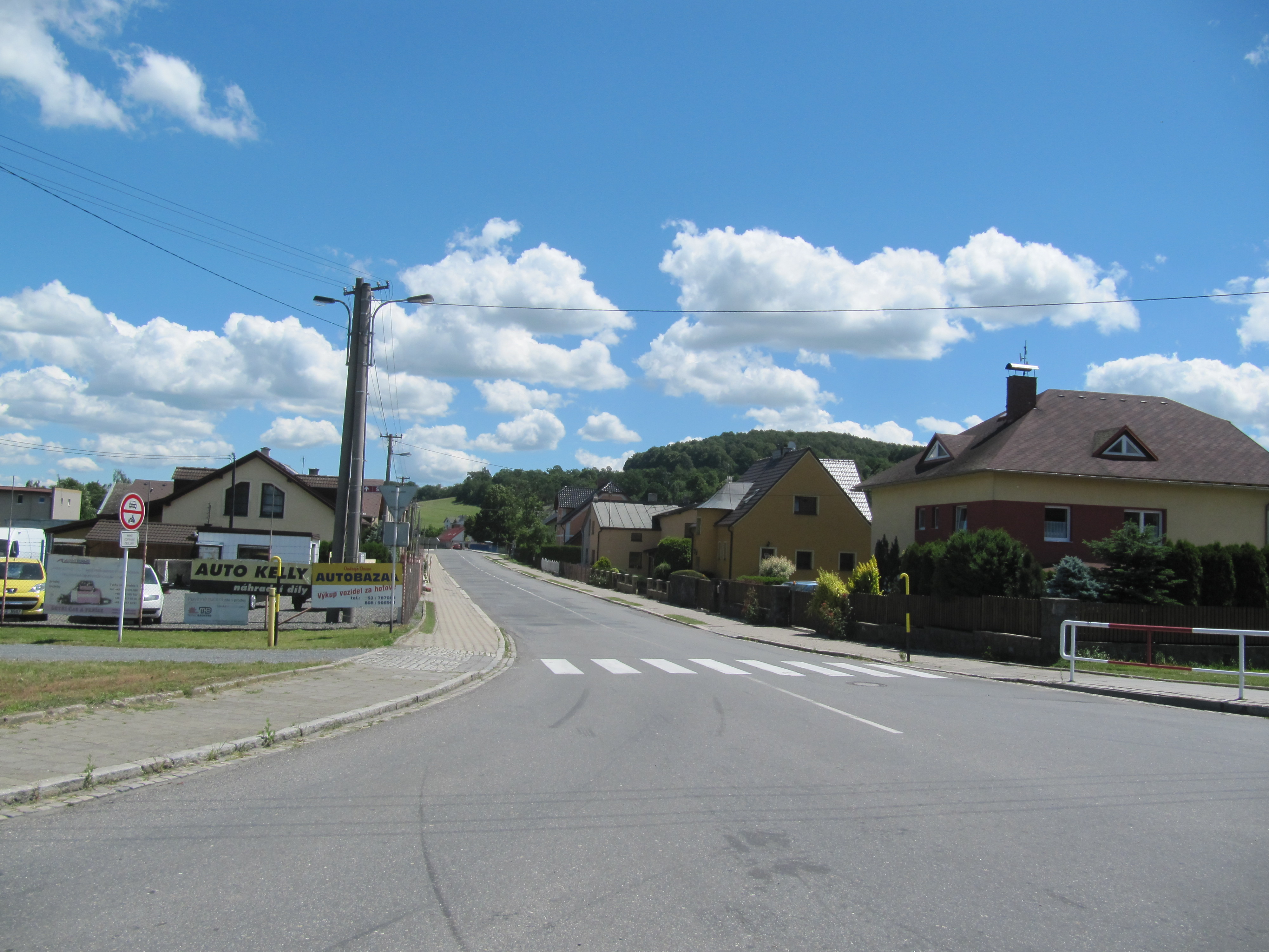 Branka u Opavy, Opava District, Czech Republic.